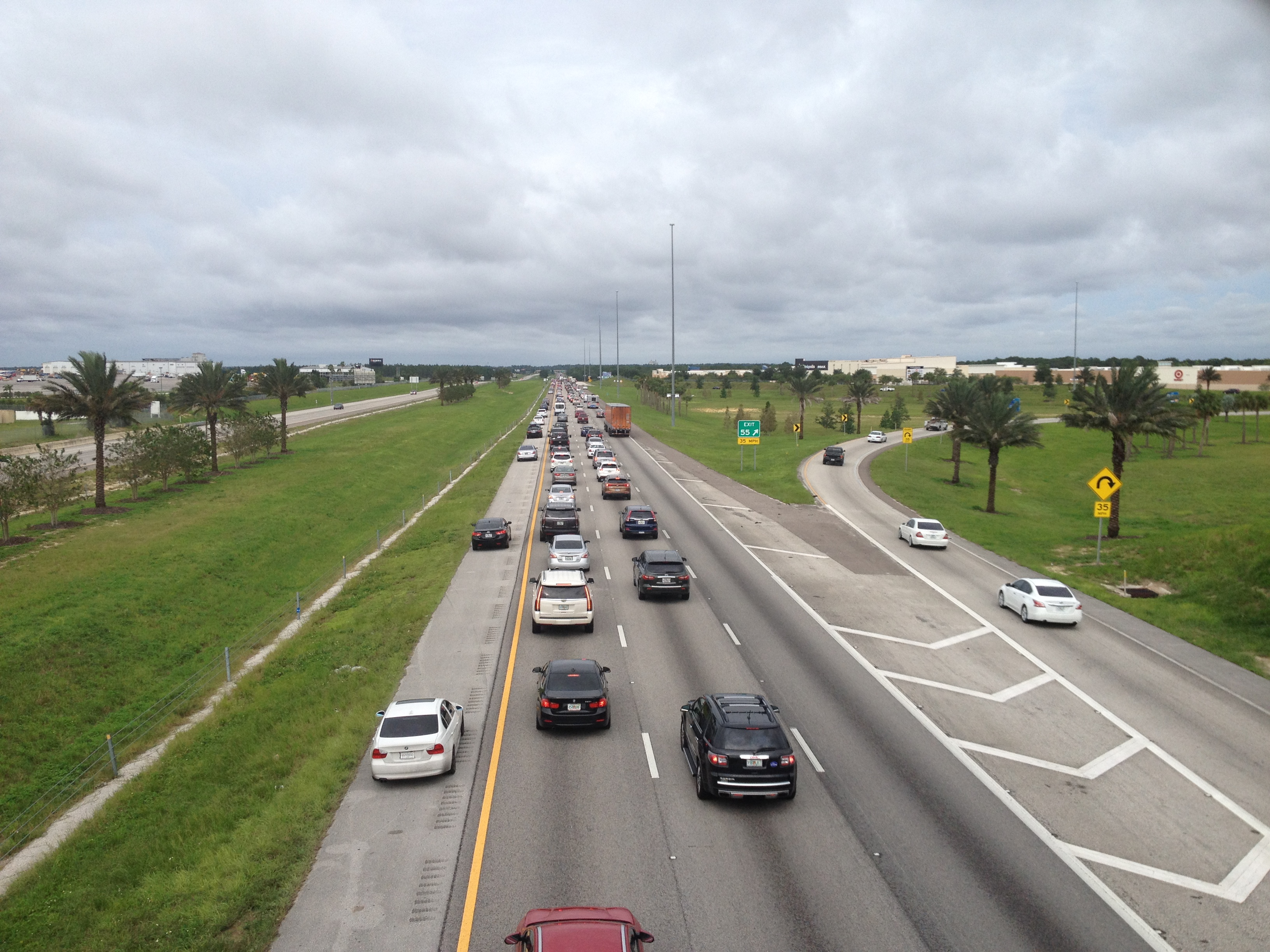 Interstate 4 viewed from the U.S. Highway 27 overpass (Davenport, Florida) on the afternoon of Saturday, September 9, 2017, which was the afternoon before the arrival of Hurricane Irma. The forecast track of Category 4/5 Hurricane Irma had been to make a turn from a westwardly track to a northerly track before making landfall in Florida and for most of the preceding week it was forecast to make landfall near Miami and travel inland up the east coast of Florida, but by late Thursday, as Irma did not begin curving towrds the north, the forecast track up the Florida Peninsula shifted west. By Friday evening, the forecast track was up the west coast, prompting a large volume of evacuees from the Tampa Bay area towards the Orlando area. On Saturday, the Governor authorized the Florida Highway Patrol and Florida Department of Transportation to initiate an emergency shoulder use plan on eastbound I-4 from U.S. Highway 41 in Tampa to State Road 429 on the southern side of the Orlando metropolitan area. The emergency shoulder use plan allowed moving vehicles (except trucks and buses) to use the left shoulder as a travel lane with a speed limit of 40 mph (64 km/h). The emergency shoulder use plan was implemented instead of contraflow.